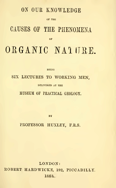 On Our Knowledge of the Causes of the Phenomena of Organic Nature von Thomas Henry Huxley (1862) - Titelseite